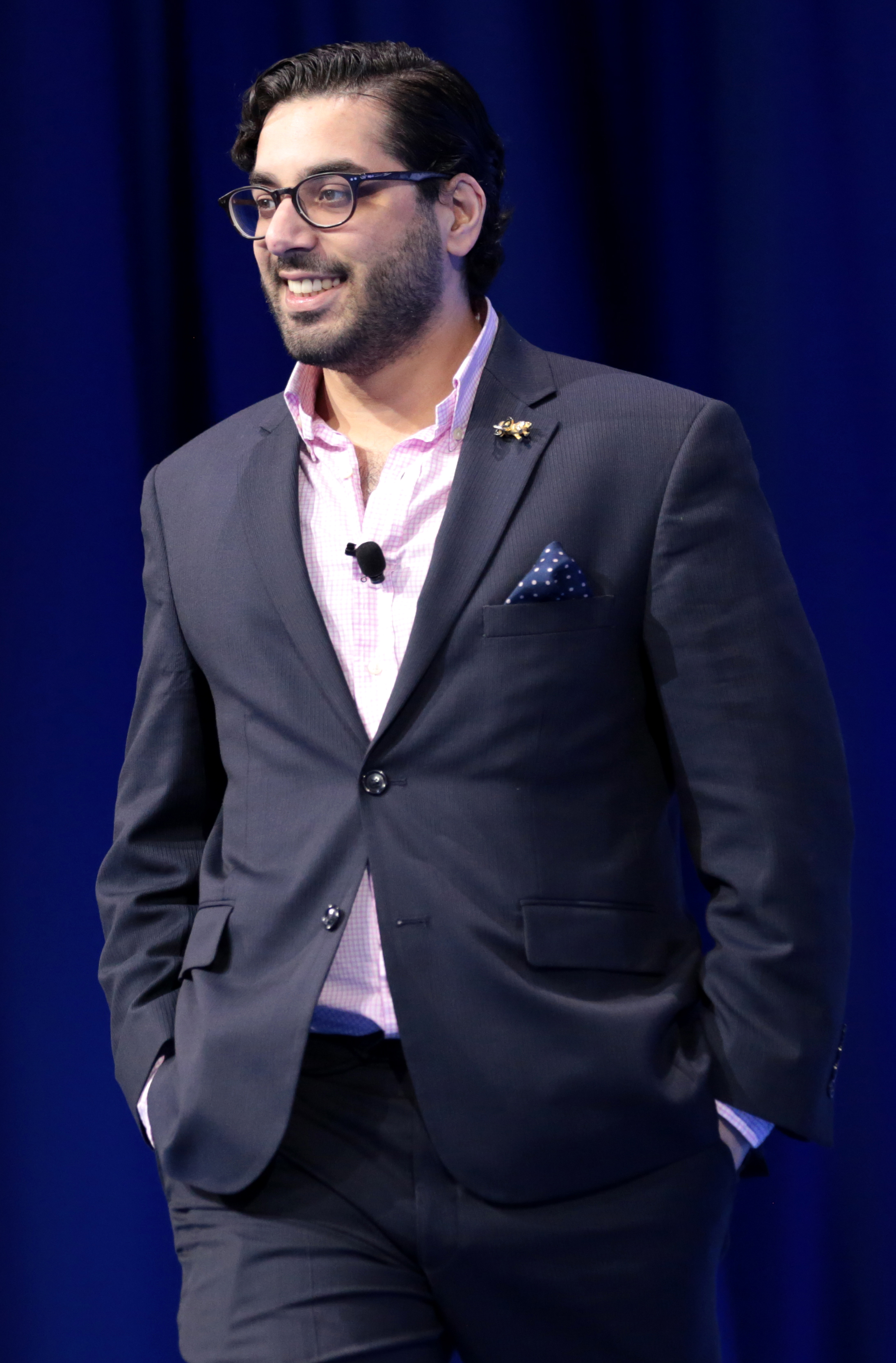 Raheem Kassam speaking at the 2017 CPAC in National Harbor, Maryland.